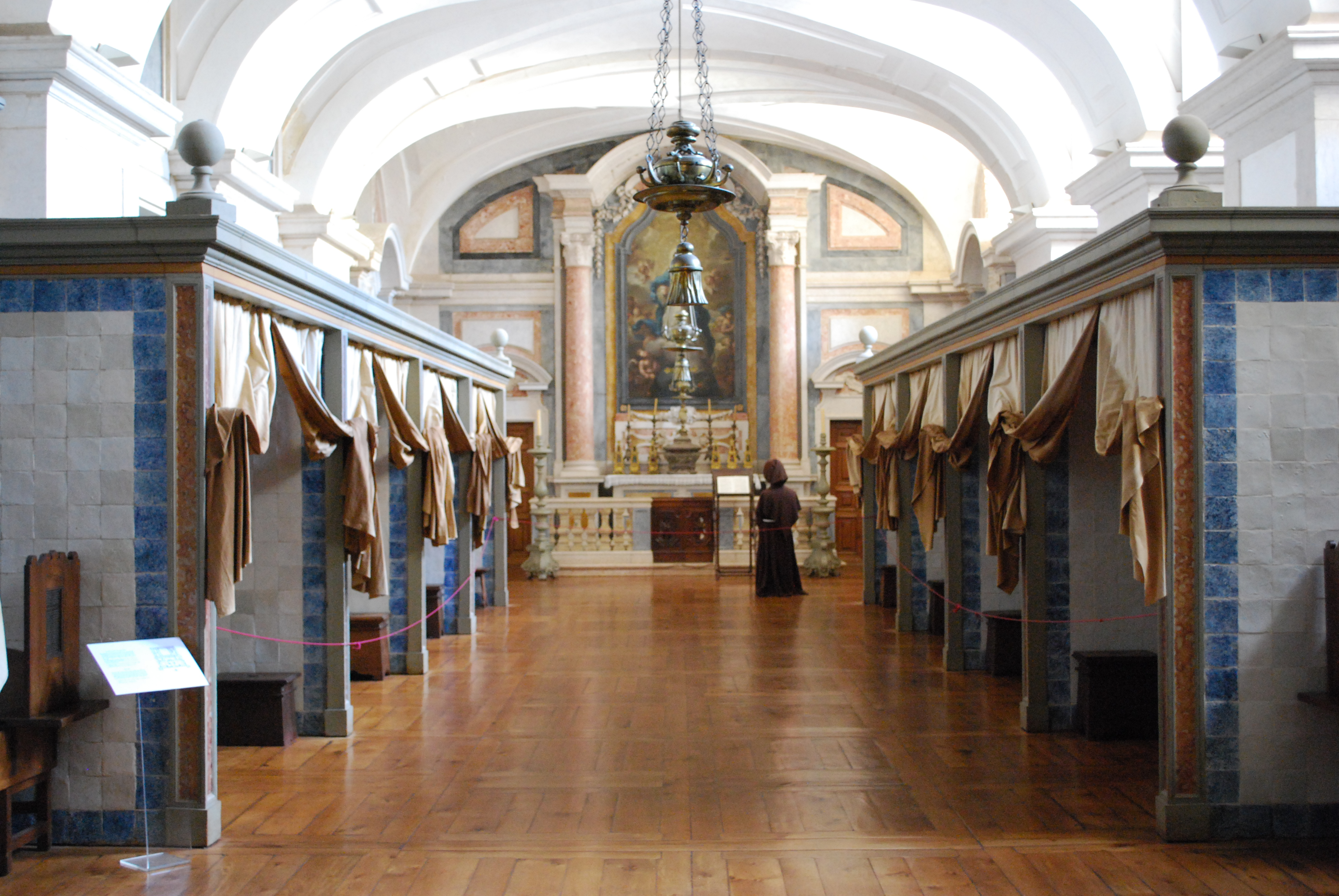 This file was uploaded for Wiki Loves Monuments in Portugal with the unique identifier 69940.